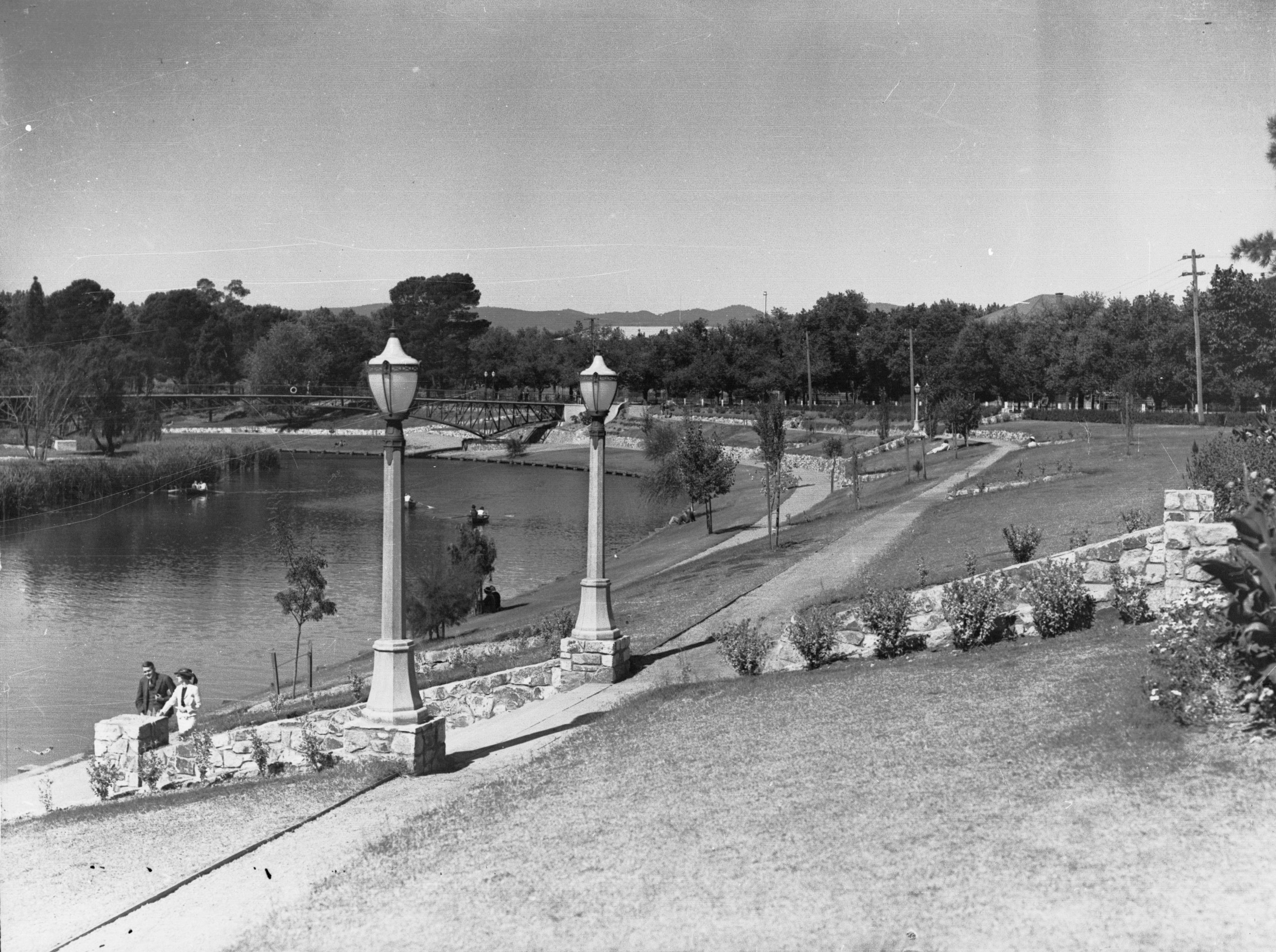 The landscaping of this area and the construction of the University footbridge were part of South Australia's 1936 centennary celebrations. The bridge was erected in 1937.